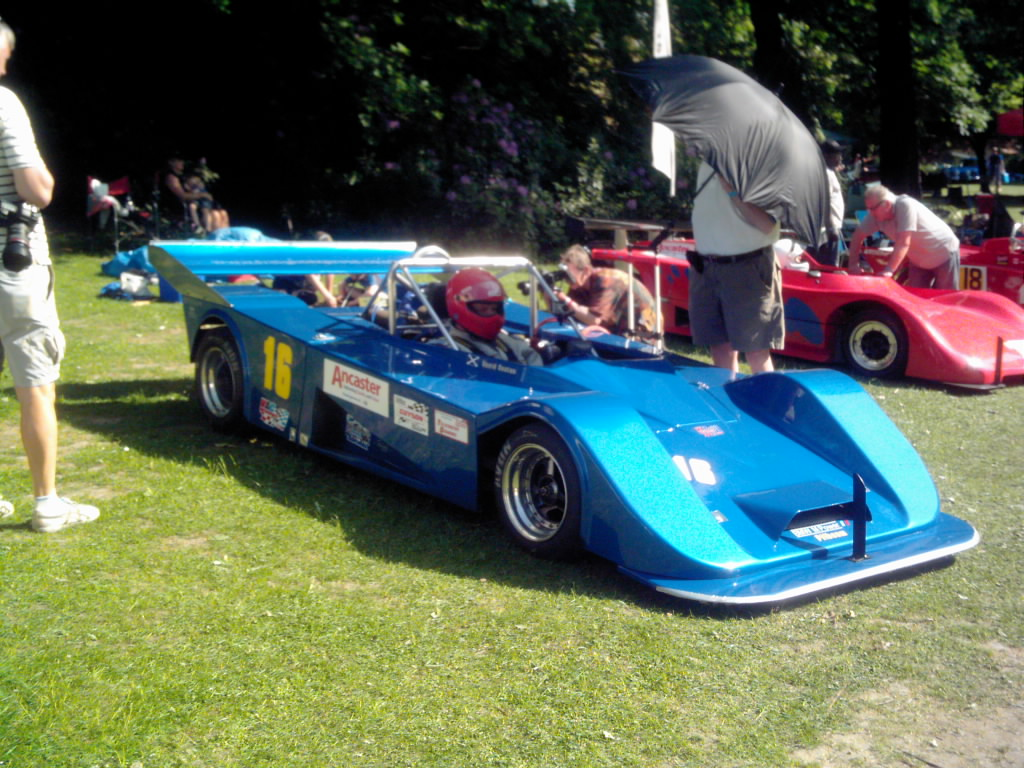 PIlbeam MP43-BMW hillclimb special